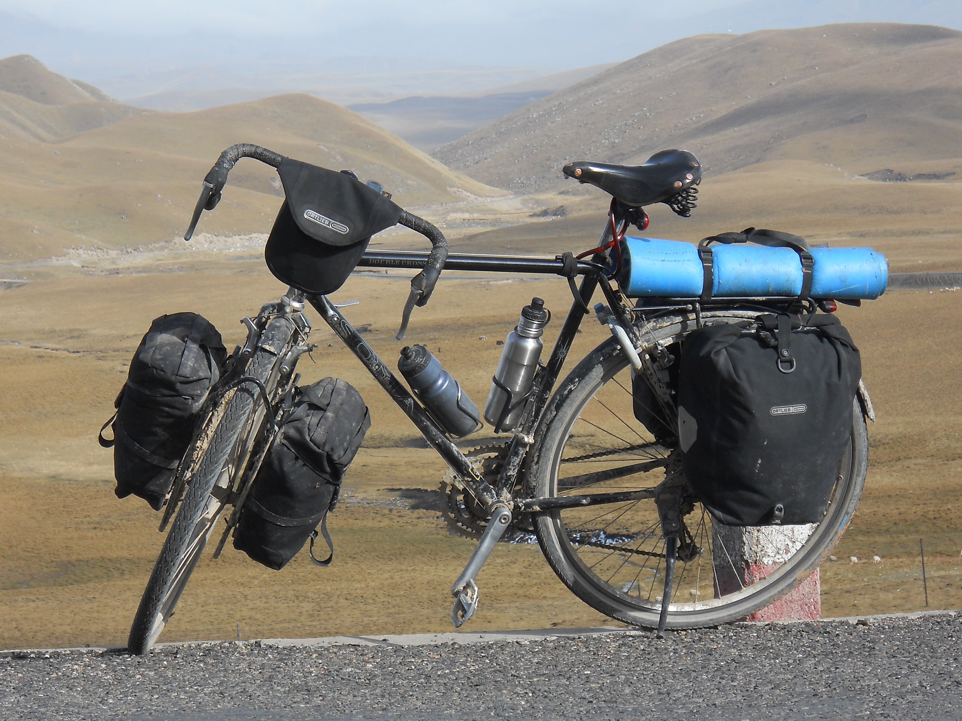 An example of a loaded touring bicycle with drop bars and 700c wheels. The background is simple and contrasting for good viewing as a thumbnail. The bicycle frame is a Soma Double Cross, the picture is taken on the Tibetan Plateau, in the Amdo Region.